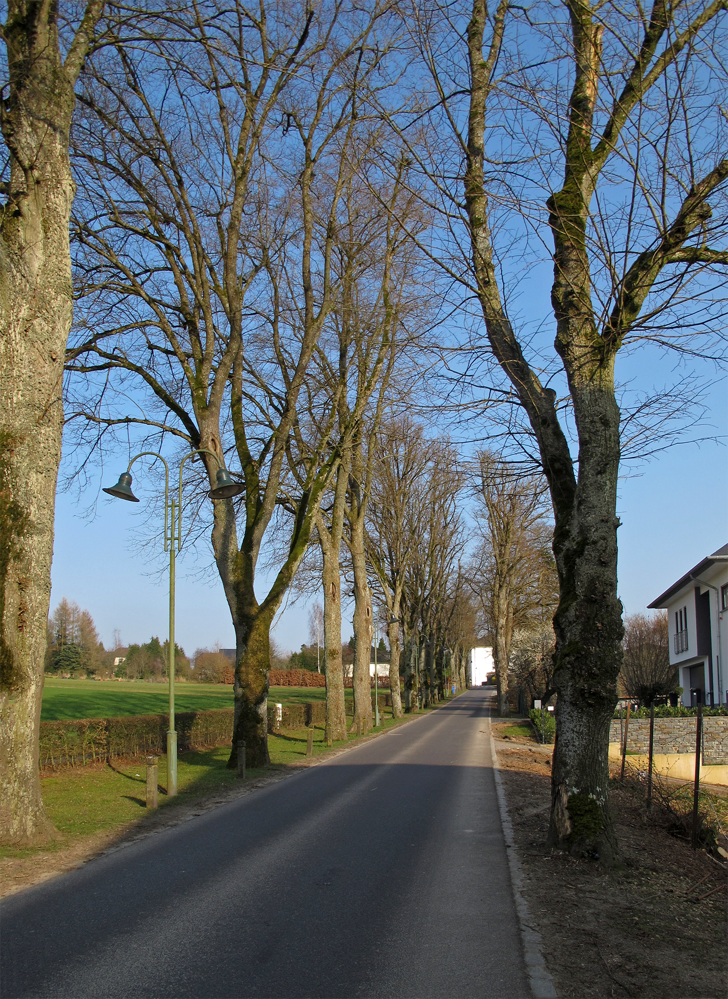 Alley of limetrees in Redange, Luxembourg, (Allée des Tilleuls)